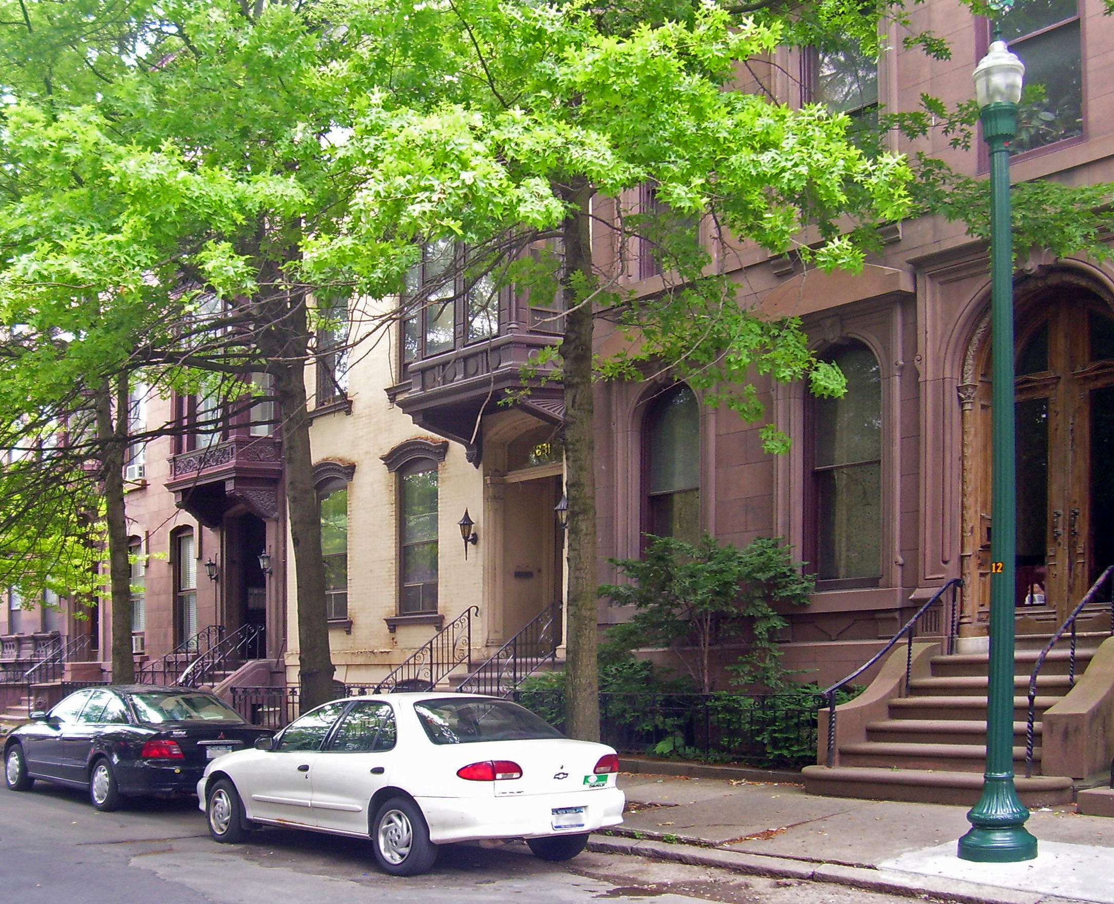 Houses on Fifth Avenue in Troy, NY, USA, dating to the 1860s. Once part of the Fifth Avenue-Fulton Street Historic District, now consolidated into the Central Troy Historic District